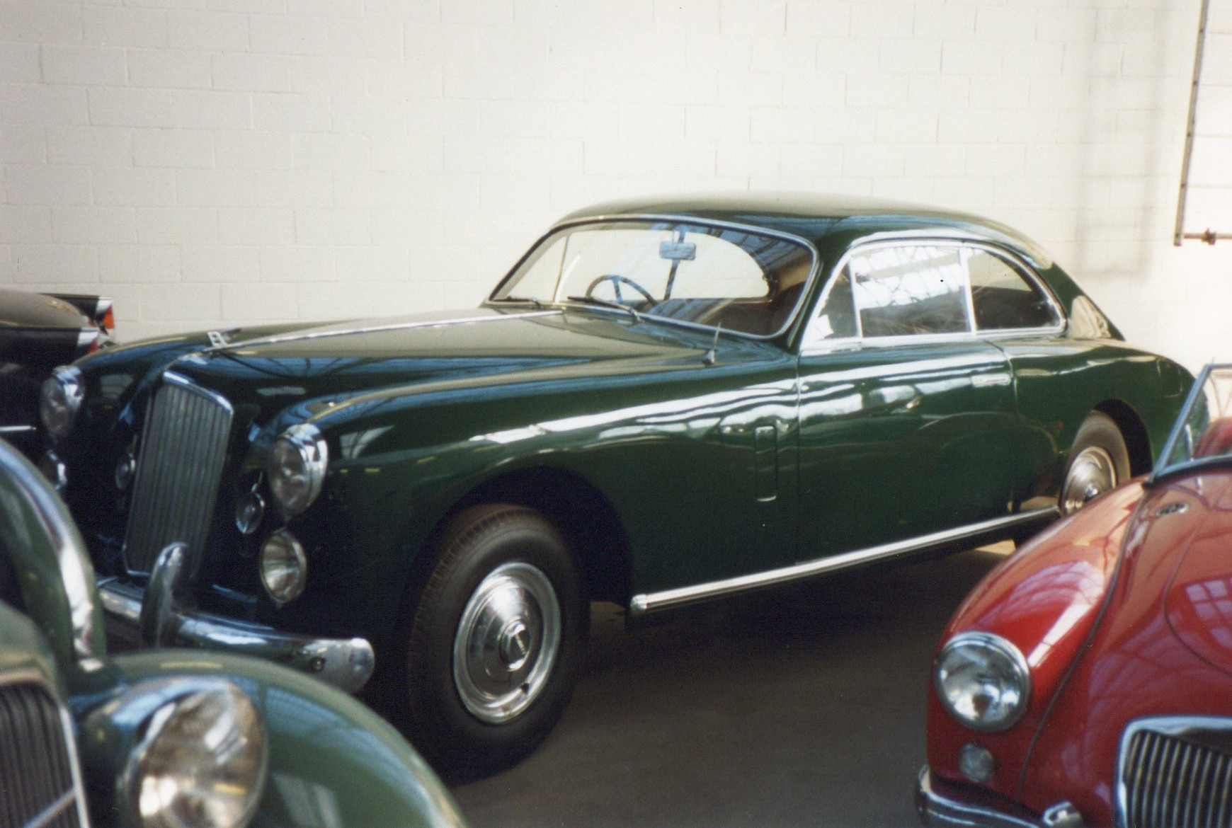 1948 Pininfarina Bentley Mk VI 'Cresta' by Facel-MétallonAutoworld in Brussels in 1993